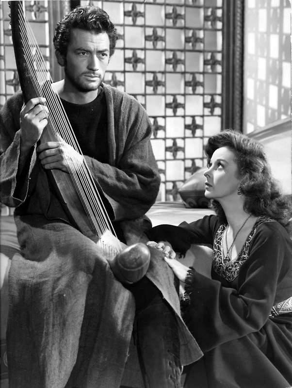 Gregory Peck and Susan Hayward publicity photo for the film David and Bathsheba, 1951